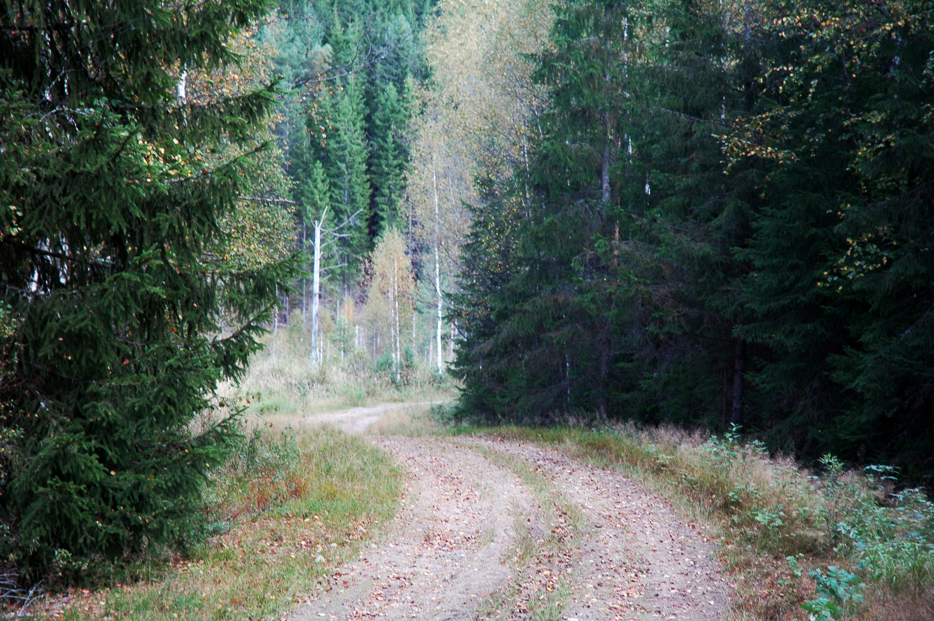 View into Sweden from the border crossing of Carl Fredriksens Transport, a Norwegian refugee rescue route.